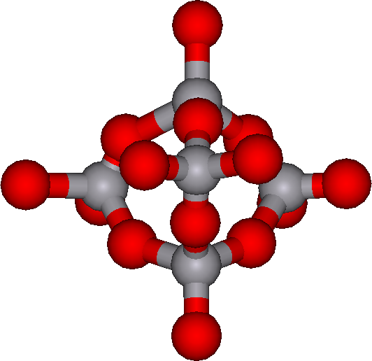 Ball and stick model of (V5O14)3- ion from data in "A new type of polyoxoanion". Day, Klemperer, Yaghi J Am. Chem Soc, 1989, 111,4518